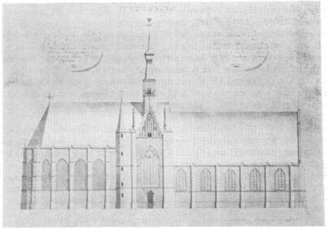 Saint James Church, Steenbergen.